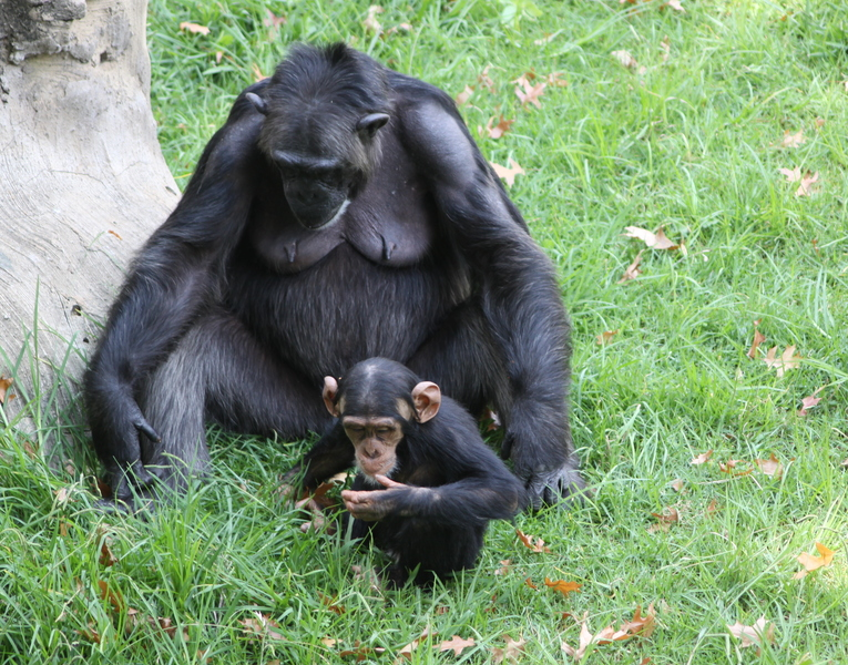 Female chimpanzee with baby